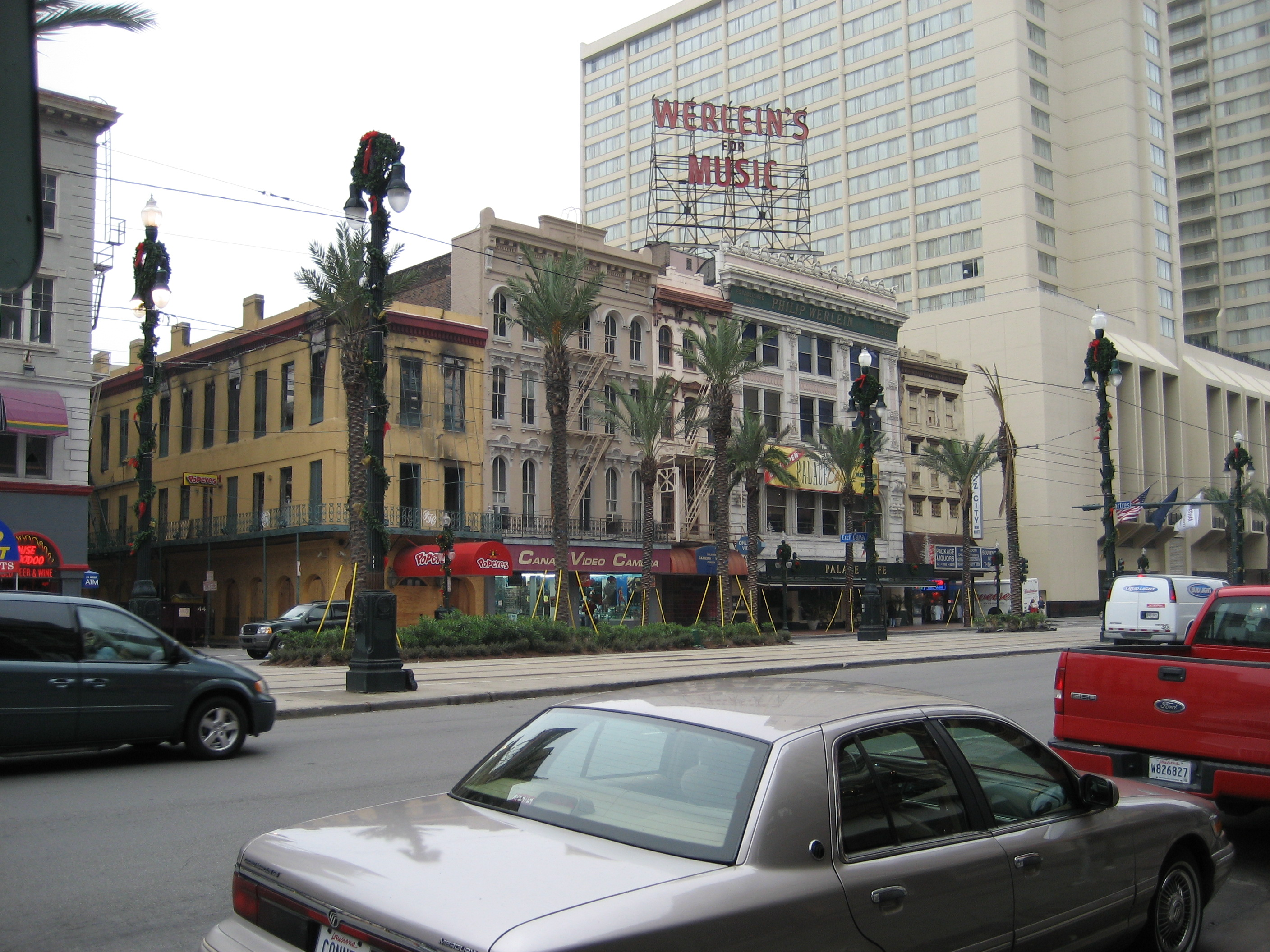 Canal Street, New Orleans. The Werlein's Music building, home to a well known music store for some 150 years; was converted into a restaurant in the 1990s.